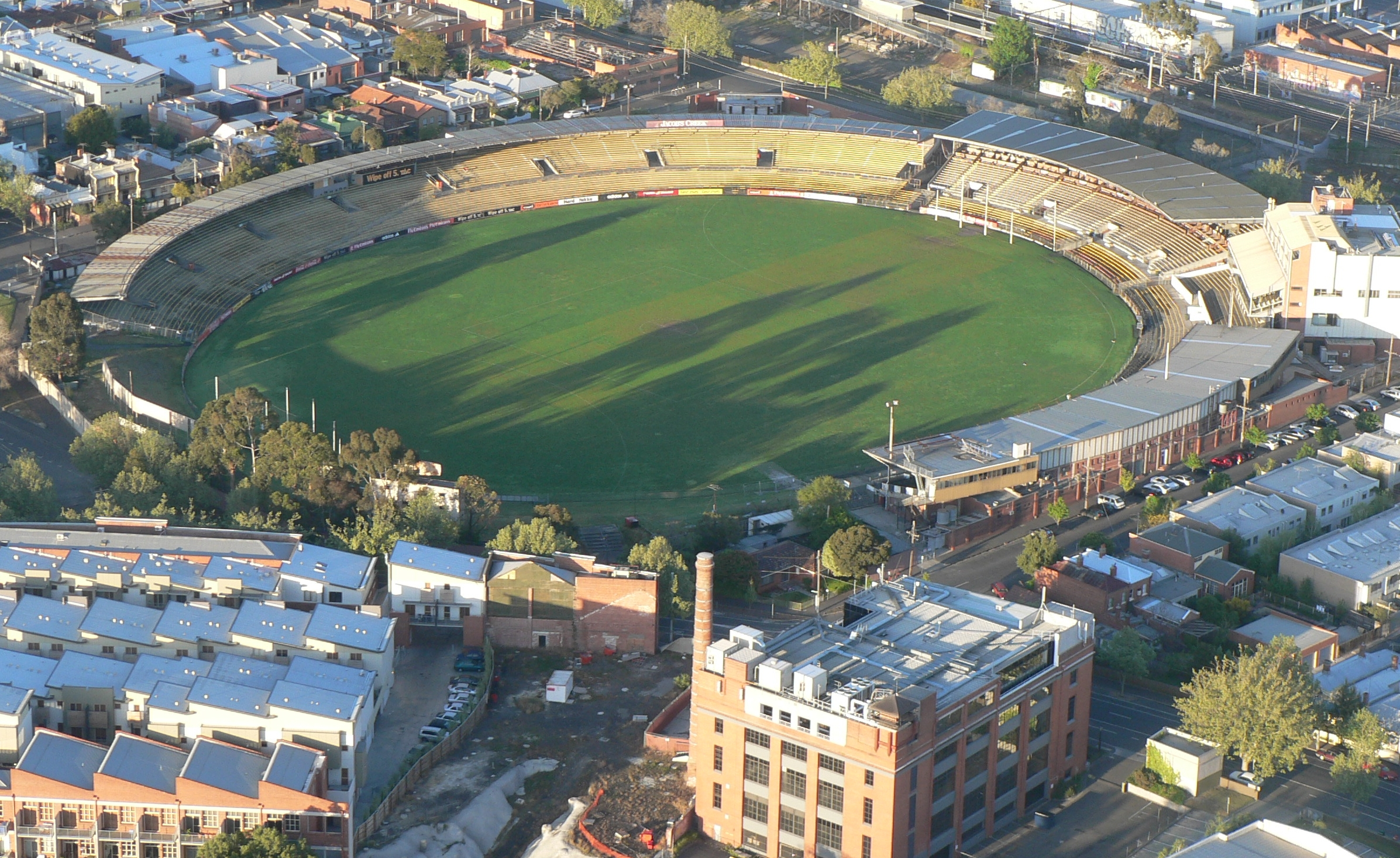 Victoria Park, Melbourne from the air